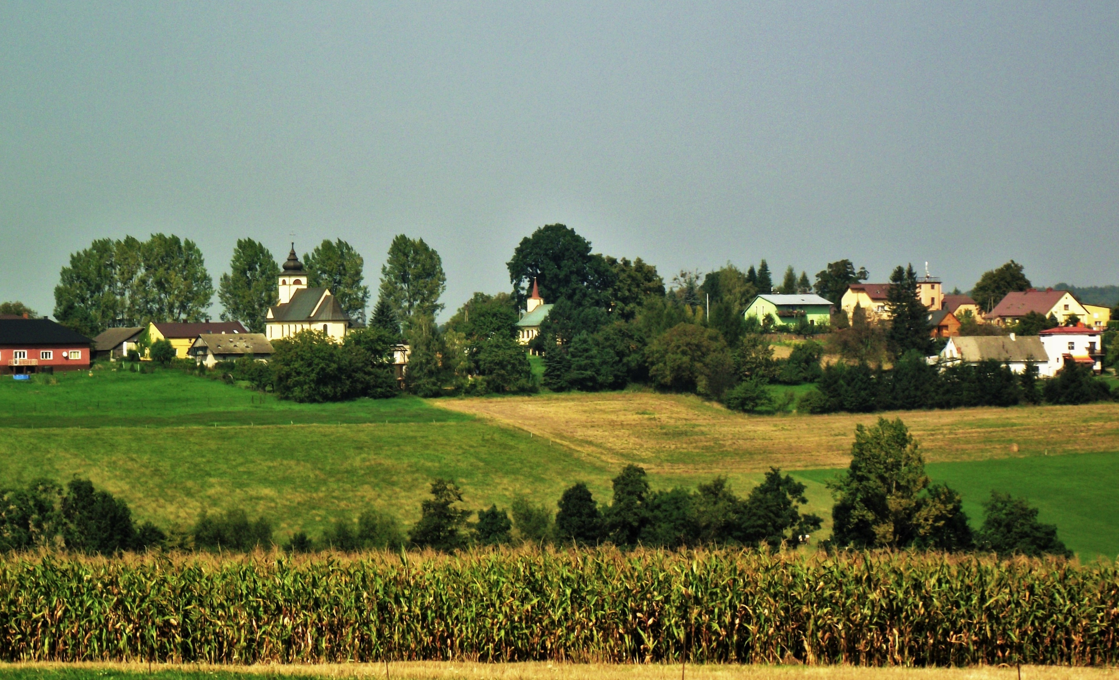 View of Kisielów from Godziszów, Poland, Cieszyn Silesia.